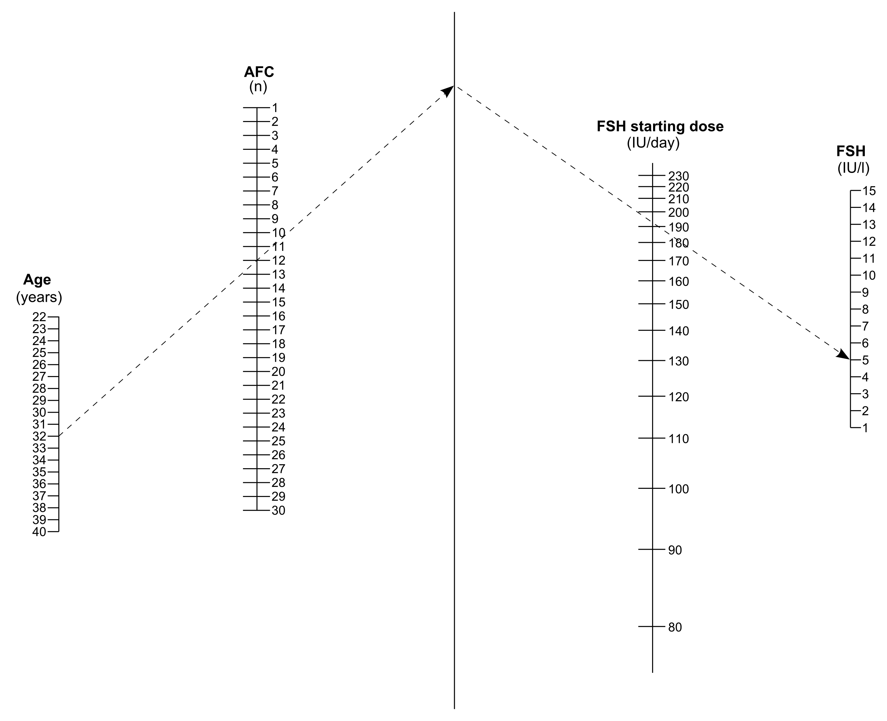 Dosage in ovarian hyperstimulation of FSH as calculated from age, antral follice count (AFC) and pre-treatment FSH level.